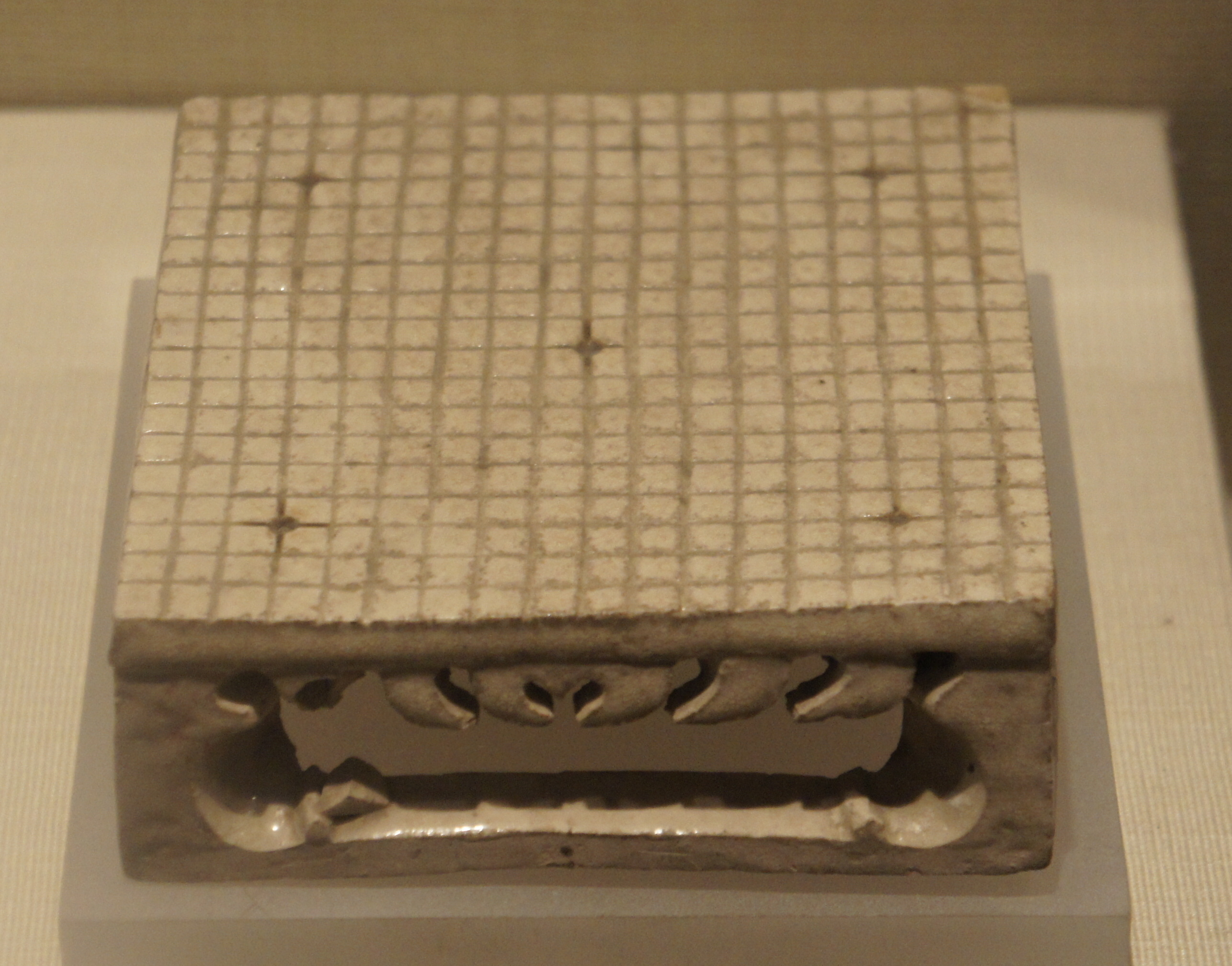 Go board model with 19×19[dubious] lines forming 361 crossing points dated from 595 AD, excavated in 1959 from the tomb of Zhang Sheng (张盛) at Anyang, Henan.